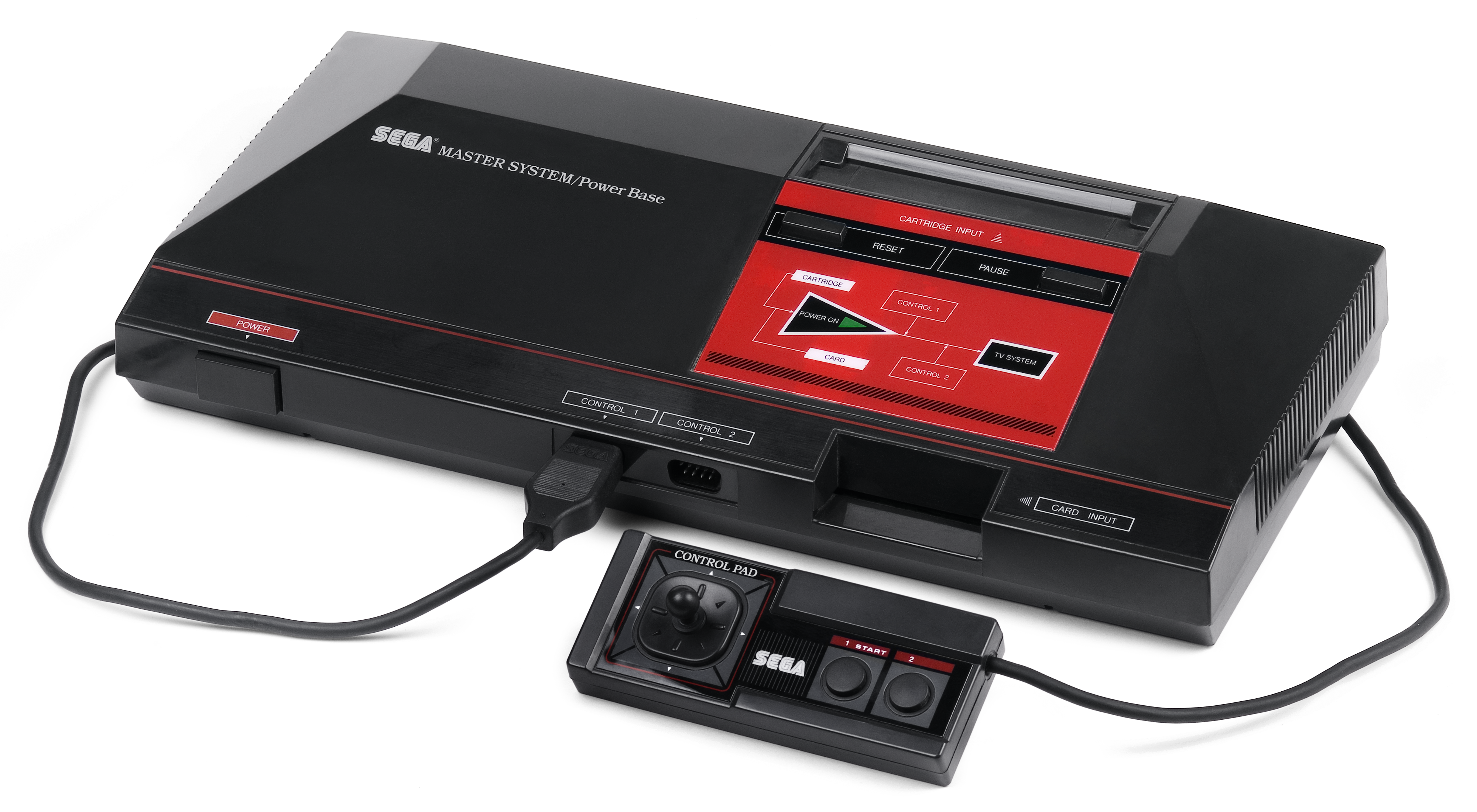 The Sega Master System video game console shown with original "joystick" controller. This is the PNG version with transparent background.